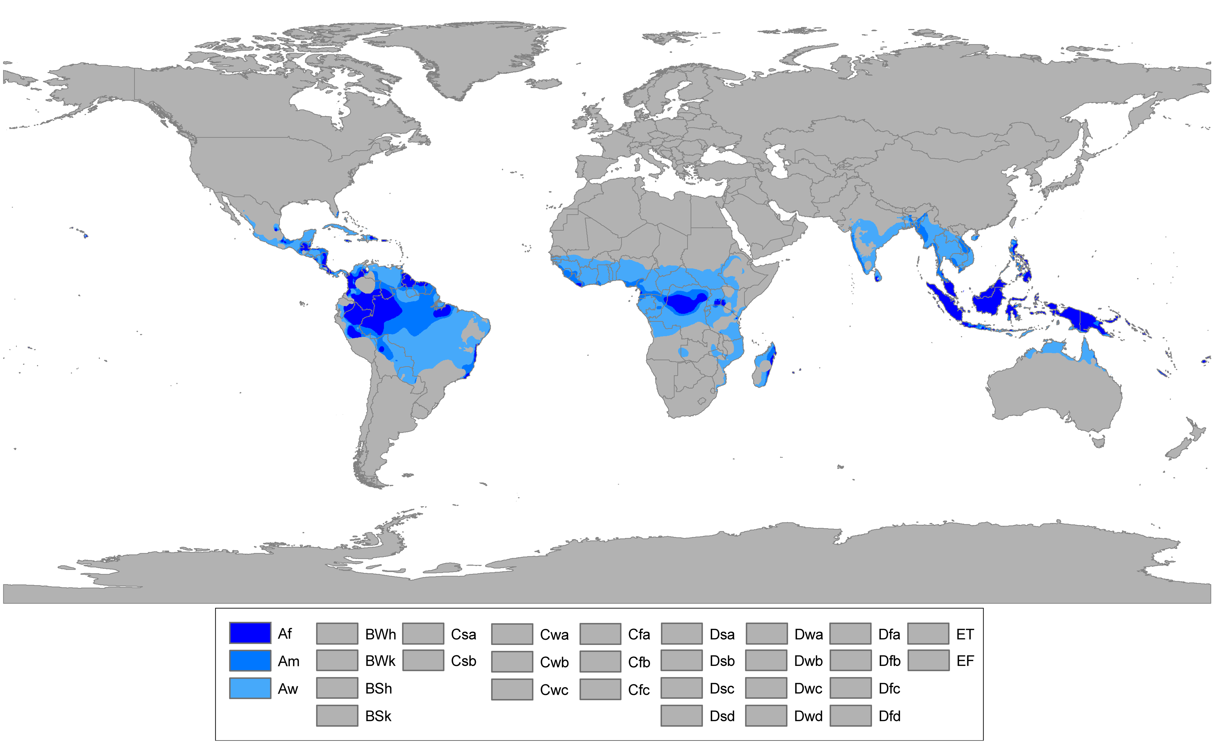 Updated world map of the Köppen-Geiger climate classification. GROUP A: Tropical/megathermal climates (Af, Am, Aw) where all twelve months have mean temperatures above 18 °C (64 °F).